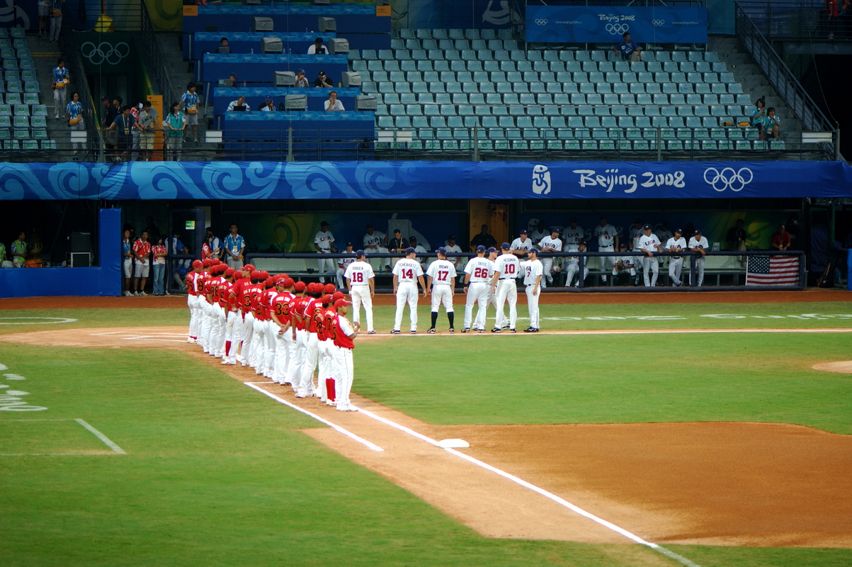 Baseball at the 2008 Summer Olympics - China vs USA